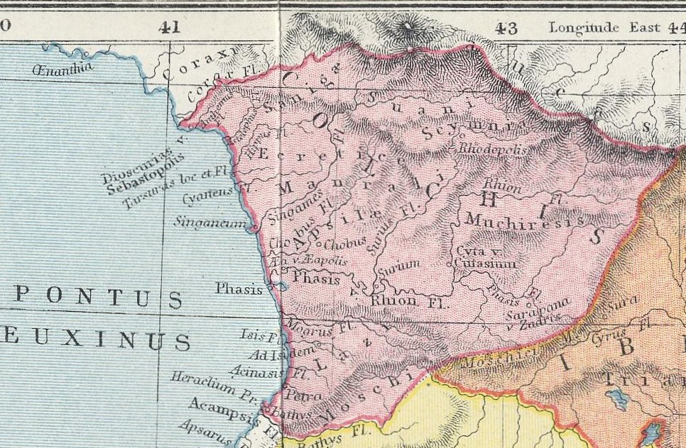 The core areas of Colchis.